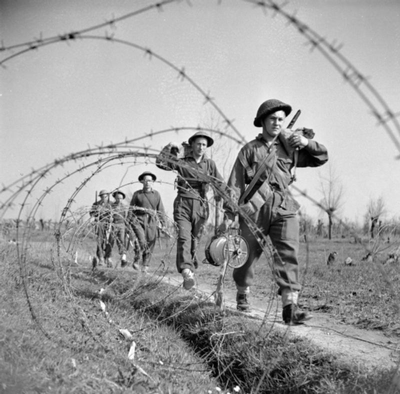 The British Army in Italy 1945 Infantry of 17 Platoon, 'H' Company, 2nd London Irish Rifles move forward through barbed wire defences on their way to attack a German strongpoint on the southern bank of the River Senio, 22 March 1945.